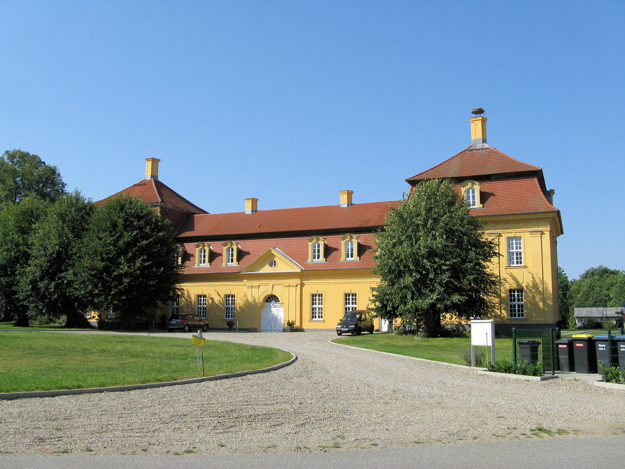 Stable in Diekhof, disctrict Rostock, Mecklenburg-Vorpommern, Germany